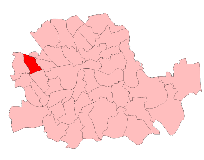 A map of Kensington North constituency within the London County Council area, as it existed from 1950 to 1974.